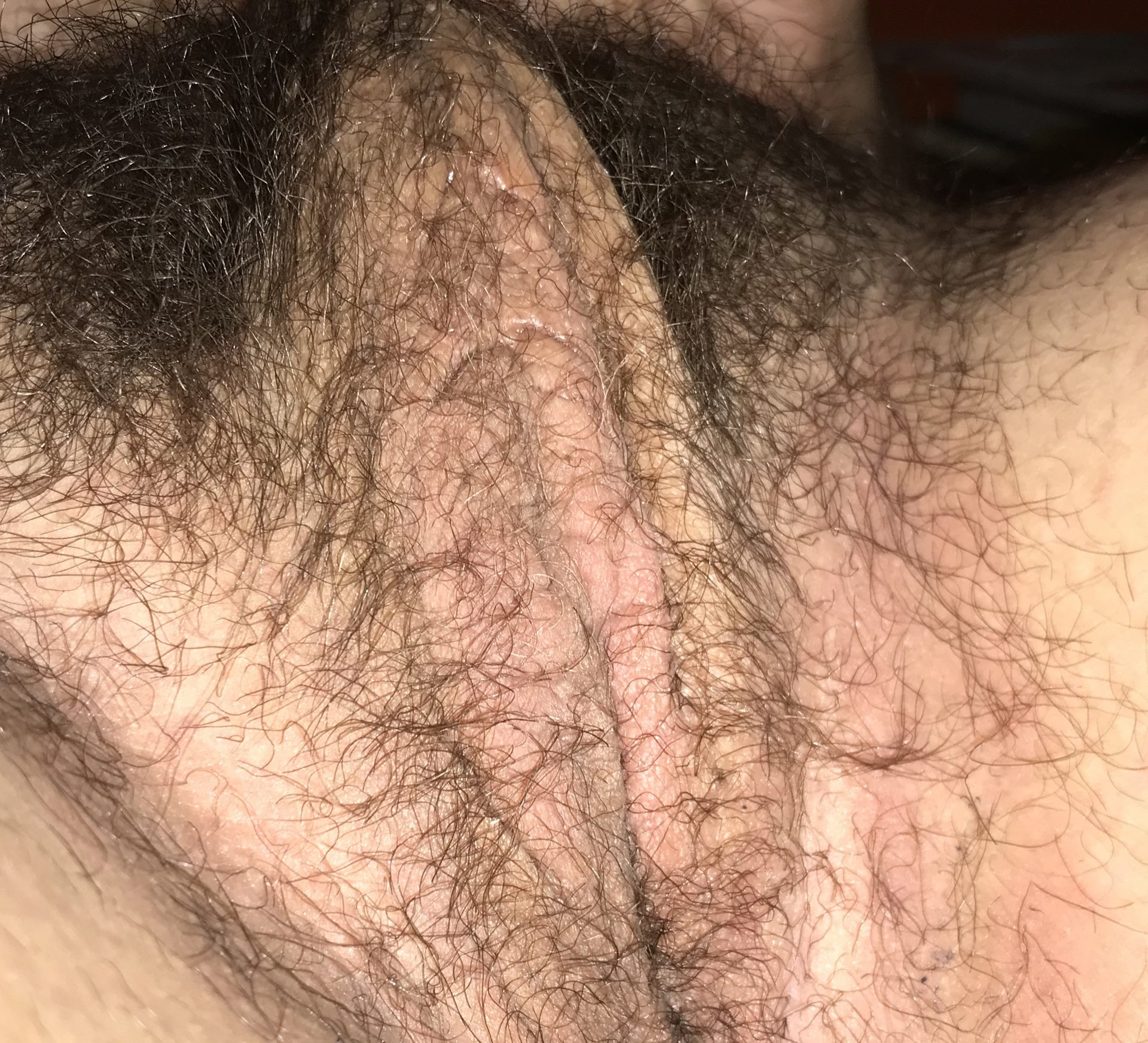 Photo of a trans female patient six months after receiving simple bilateral orchiectomy. Photo shows small amounts of scarring near top of the scrotum on the midline.